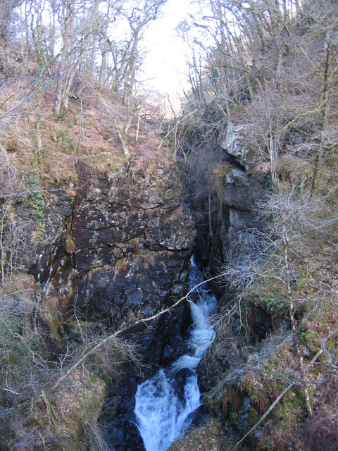 Little Caldron River Lednock water falls, also known as De'il's Caldron.